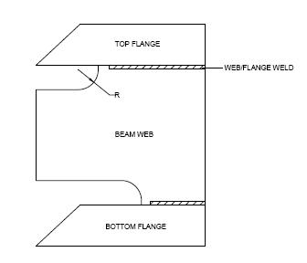 This is example of a welding access hole. It is based on ANSI/AISC 360-10 Specification for Structural Steel Buildings Commentary J1.6 Alternate 3 (pg 16.1-386)